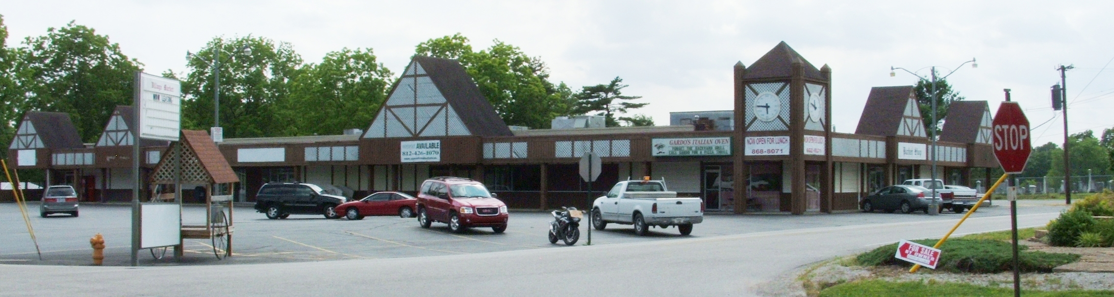 The Village Market in Darmstadt, Indiana, at Darmstadt Road and Boonville-New Harmony Rd.